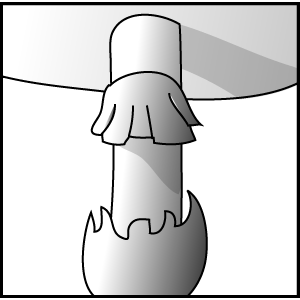 icon of a mushroom stem with annulus and volva